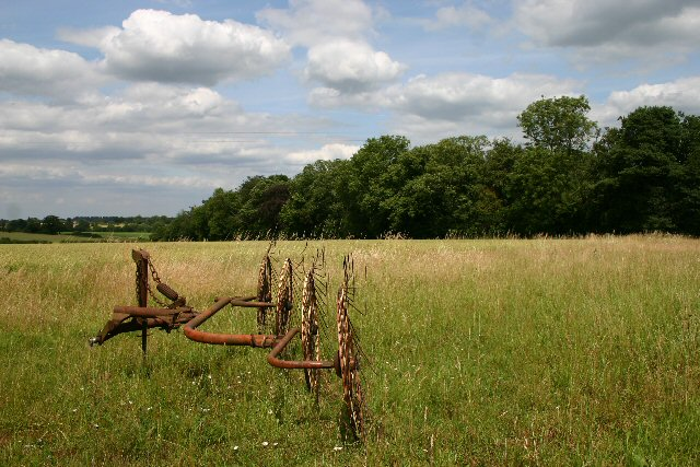 Field at Thorn Corner. Just off the A134 Bury St Edmunds to Sudbury road, this quiet field is shown on the maps as 'The Warbanks', a historical site.